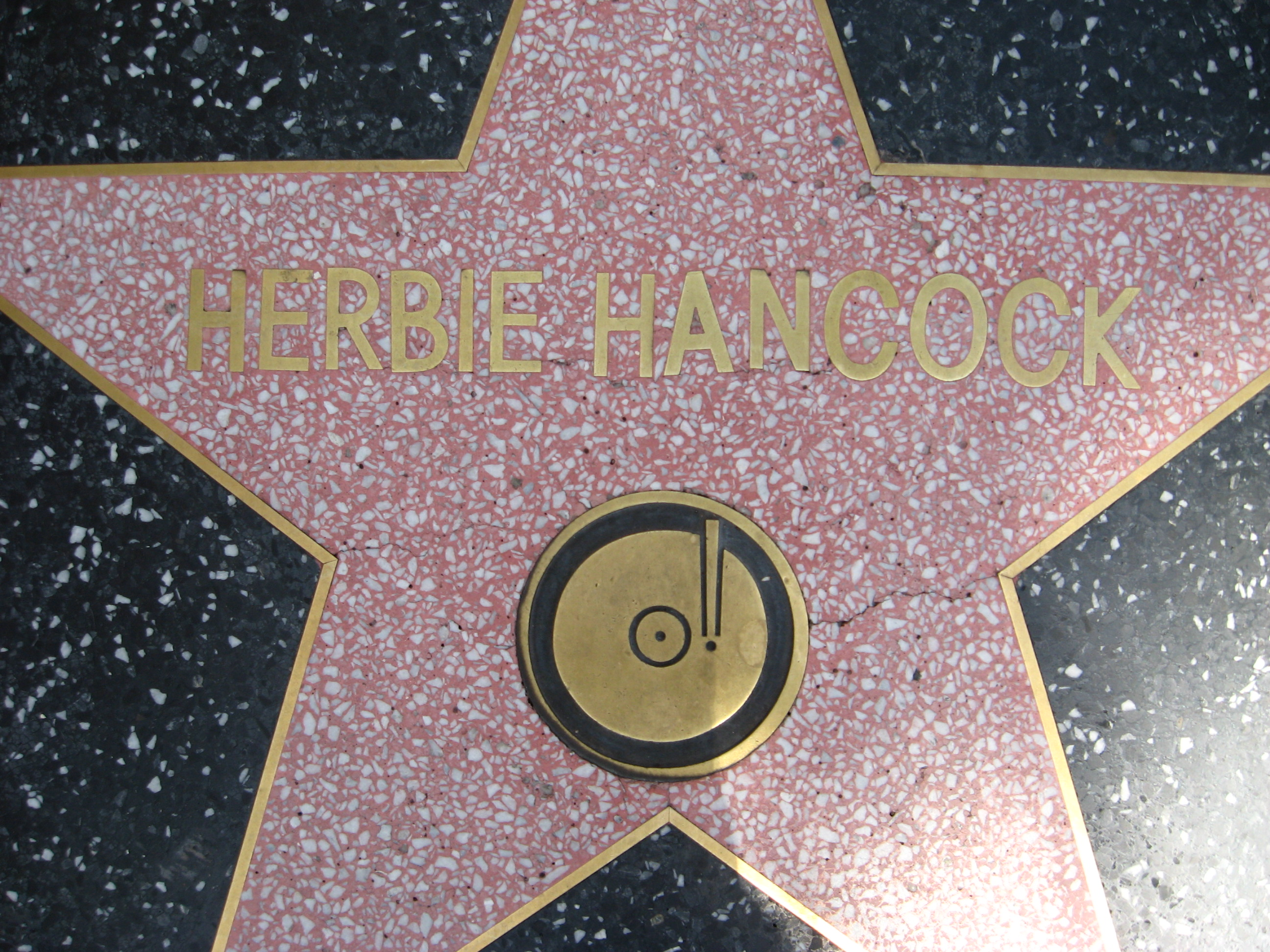 Star for jazz musician Herbie Hancock, at the Hollywood Walk of Fame in Los Angeles